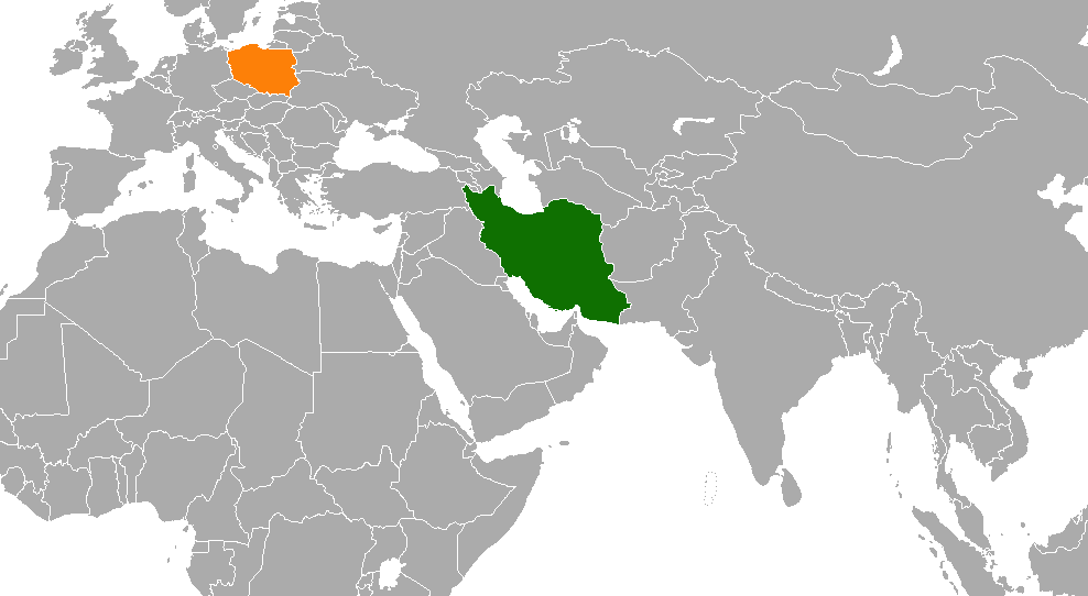 Map showing the locations of both Iran and Poland